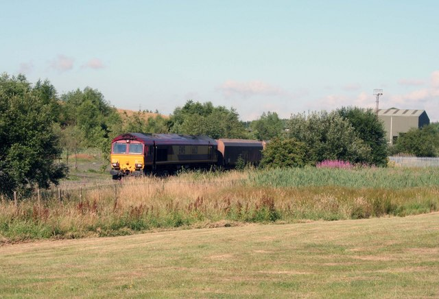 A coal train is loading at Tower Mine The mine is a little distance from here. Coal is brought via a Conveyor Belt from the mine workings to the loading pad. The loading pad is right near the Cemetery. Road Stone has also been loaded here as well as coal for transport away by rail.